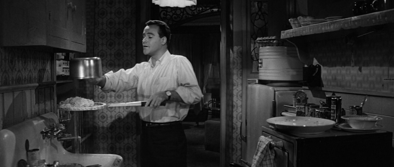 Screenshot of Jack Lemmon as C.C. Baxter using a tennis racket to strain spaghetti in the trailer for the film The Apartment (1960)